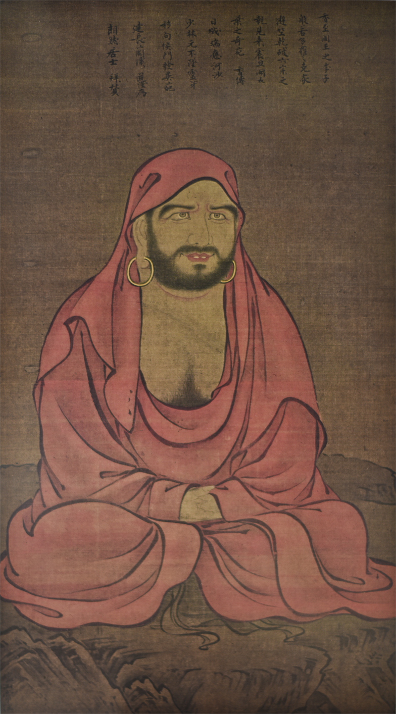 Daruma (絹本著色達磨図, kenpon chakushoku darumazu). Hanging scroll, 123.3 x 61.2 cm . Ink and color on silk. Located at Kōgaku-ji, Kōshū, Yamanashi, Japan. The scroll has been designated as National Treasure of Japan in the category paintings.